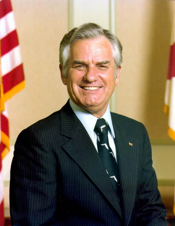 Portrait of Governor J. Wayne Mixson of Florida